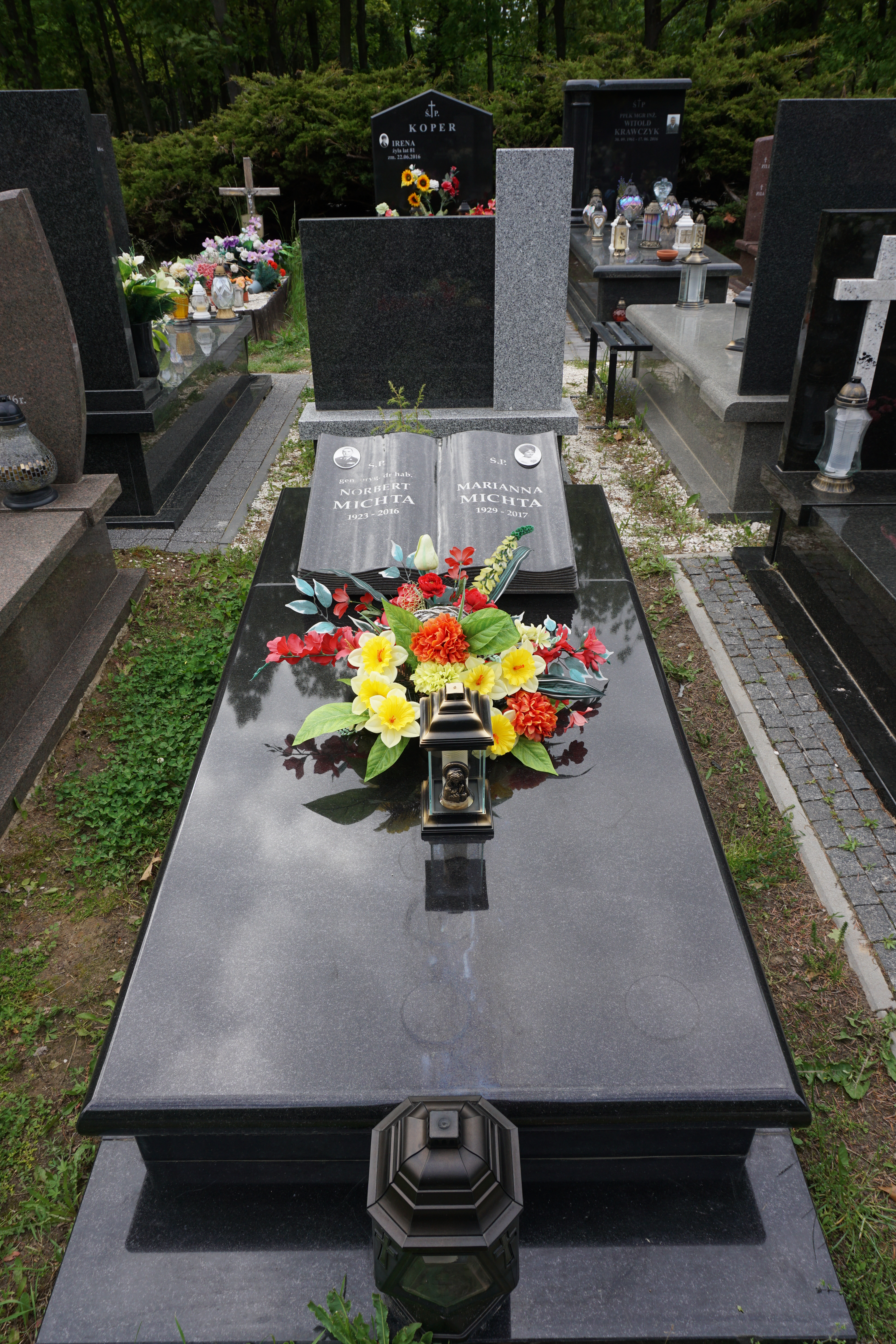 The grave of Norbert Michta at the North Municipal Cemetery in Warsaw (section B-XV-1, row 2, grave 17)